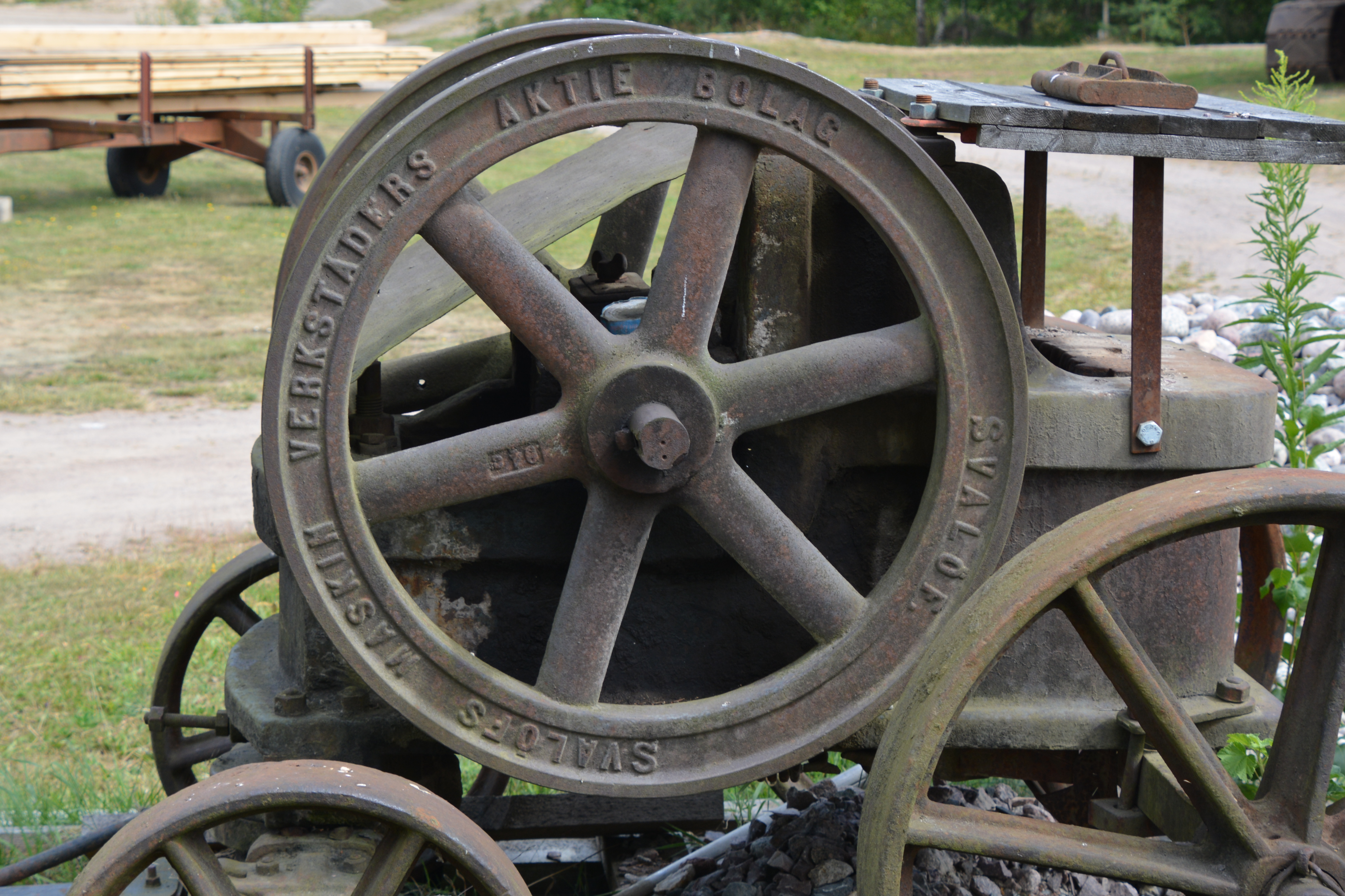 Mobil stenkross från Svalöfs Maskin Verkstäder AB, fotograferad i Målilla-Gårdveda hembygdspark 2017